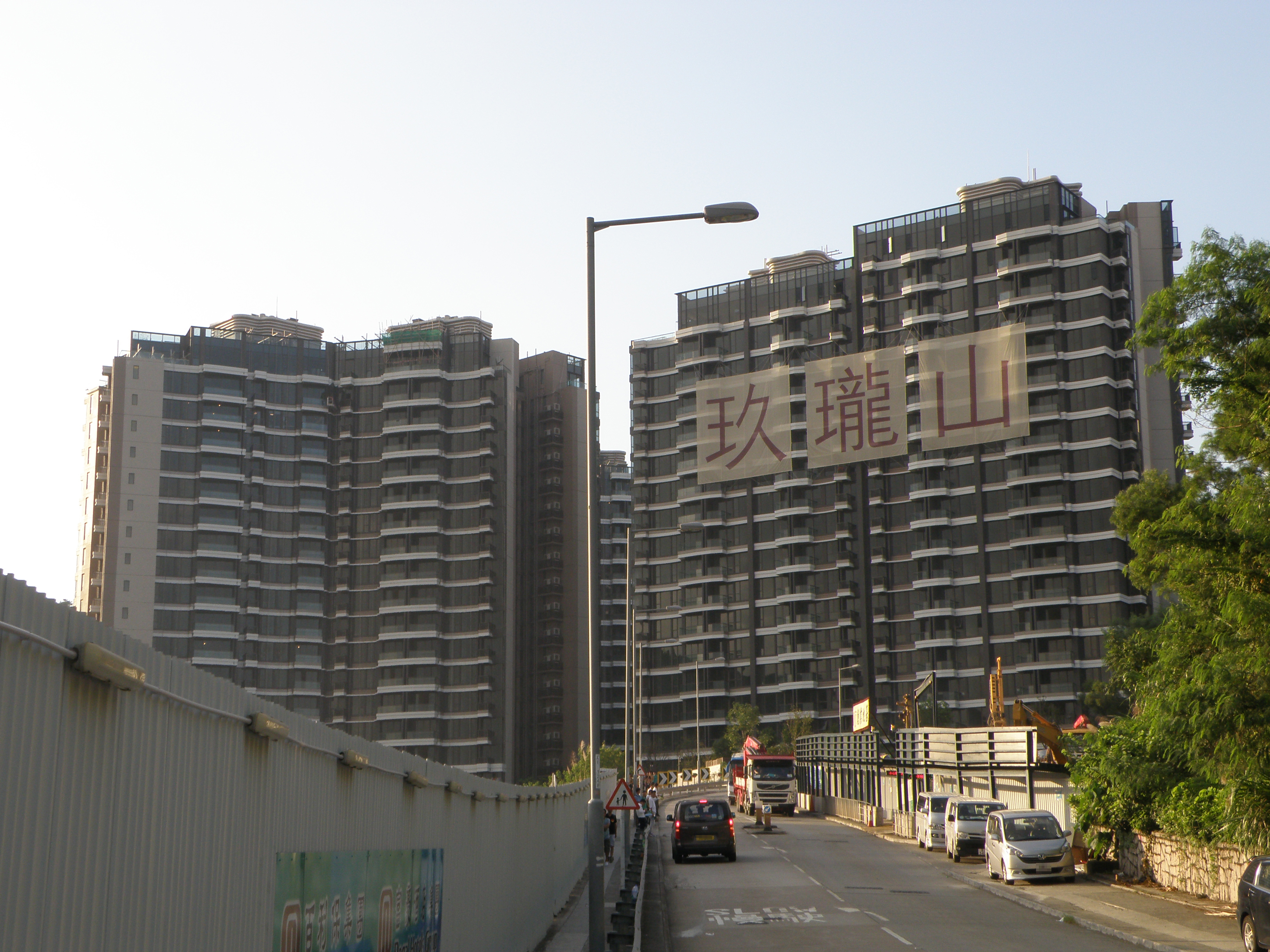 Dragons Range in Kau To, Hong Kong.